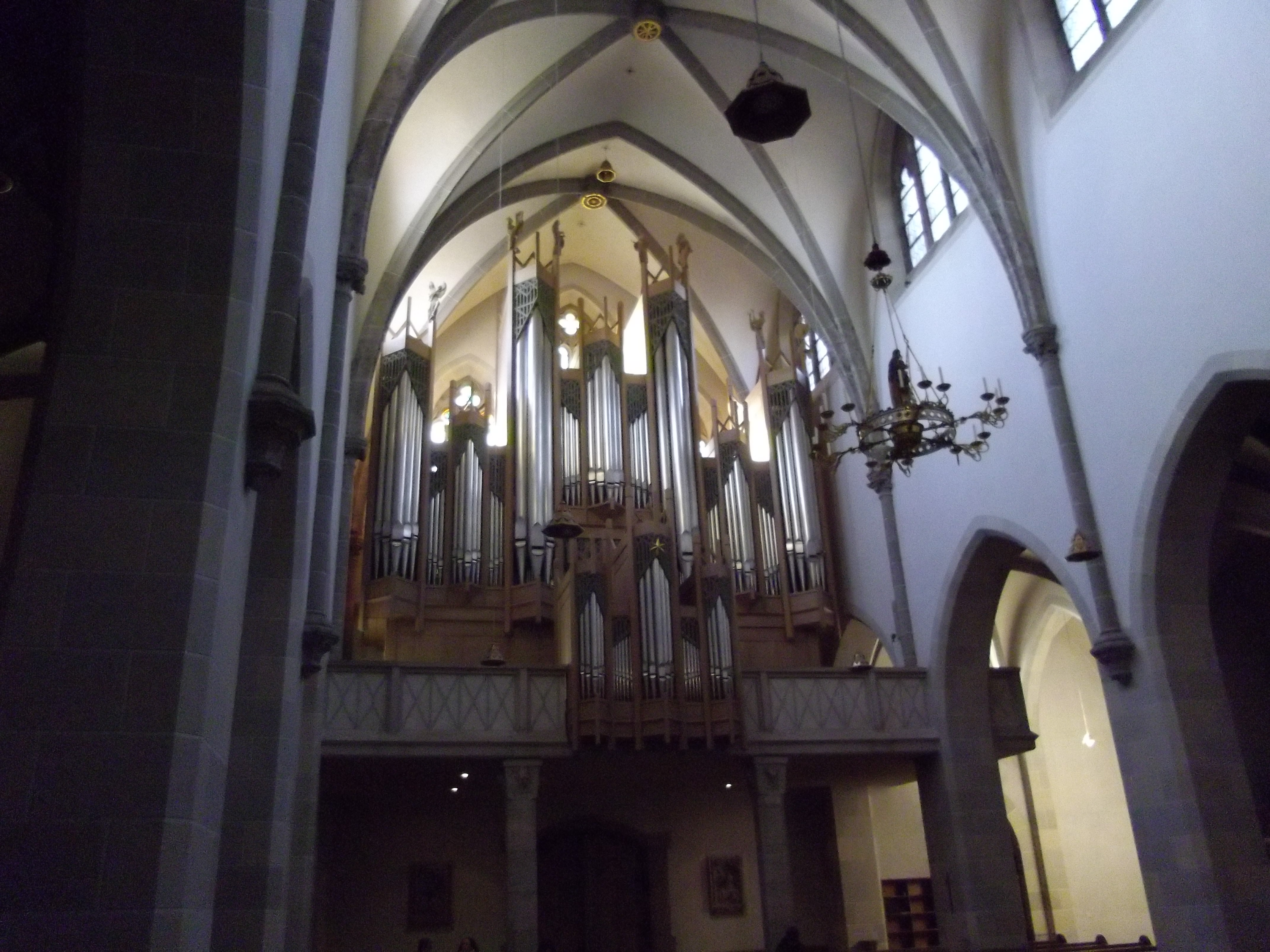 main organ of St. Ottilien